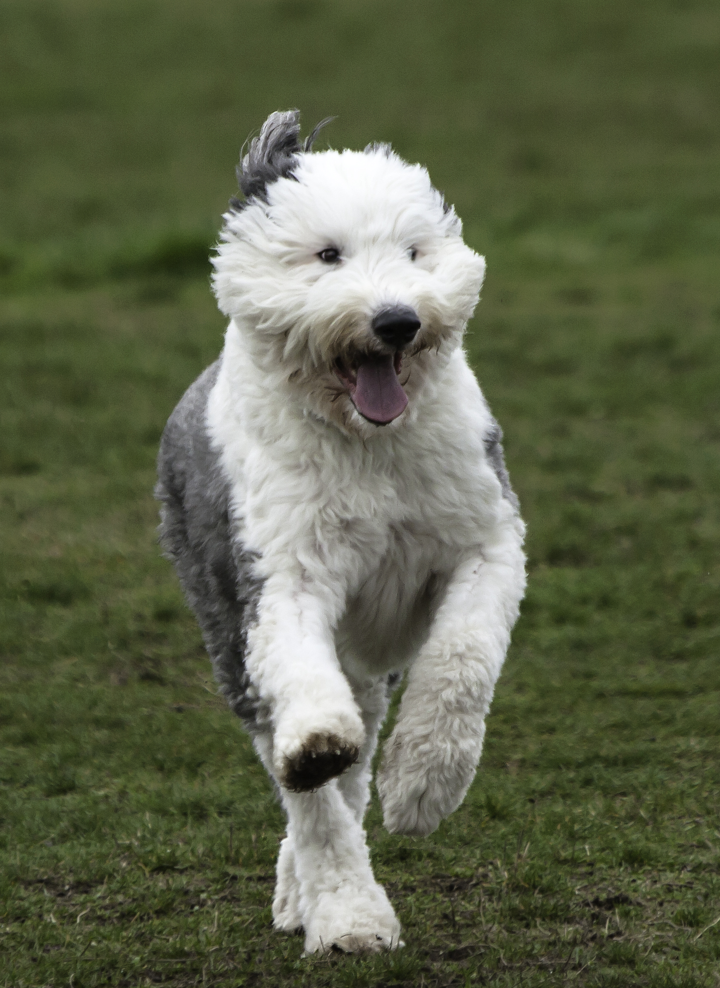 My favorites from a class on action photography of pets. Who knew panning with a hand-held zoom lens could be so difficult (at least for me)?